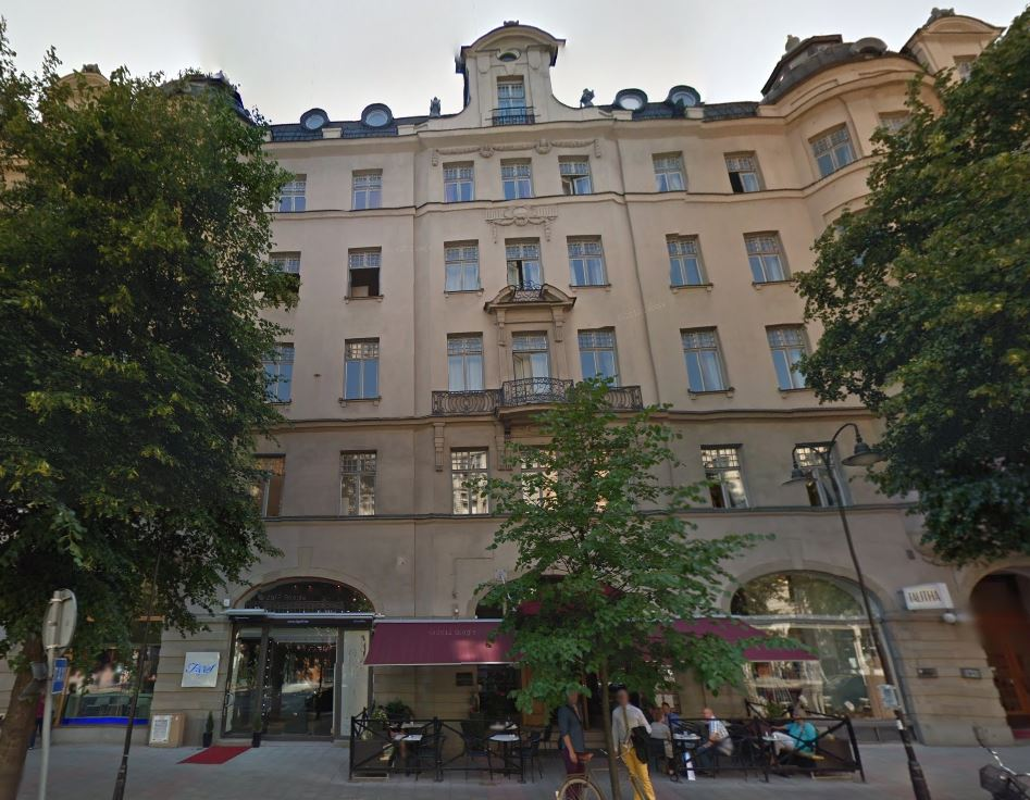 Shows the official Company address (a home in Stockholm)